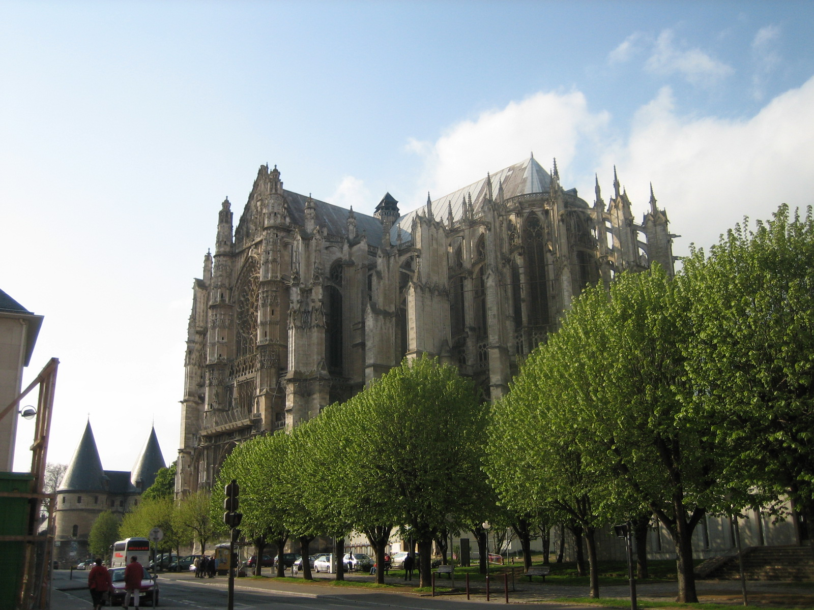 Cathedral of Beauvais